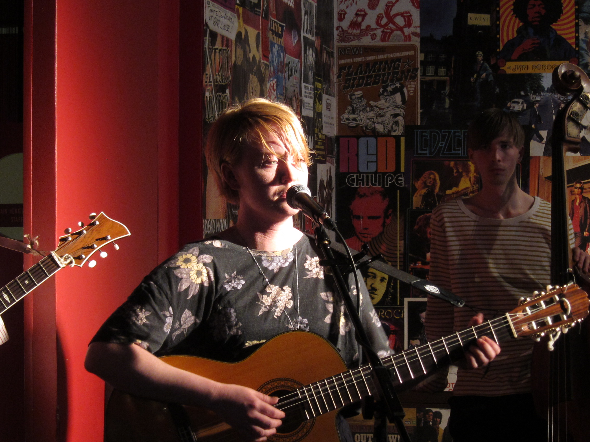 Radio Helsinki summer club Bar Loose Helsinki 9 May 2012